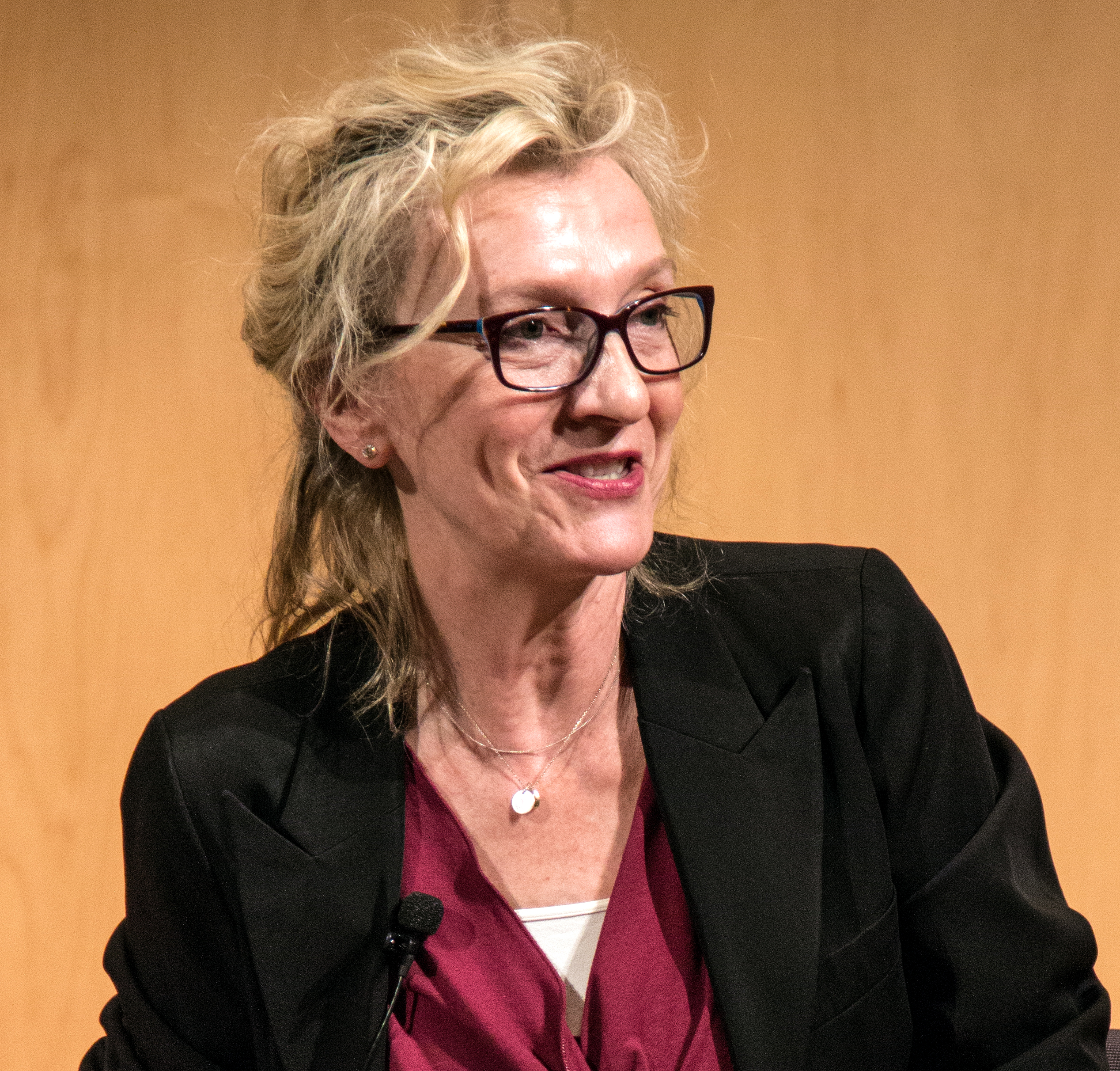 Elizabeth Strout, Pulitzer Prize winning author, speaks at Wilton Library, in Wilton, CT.